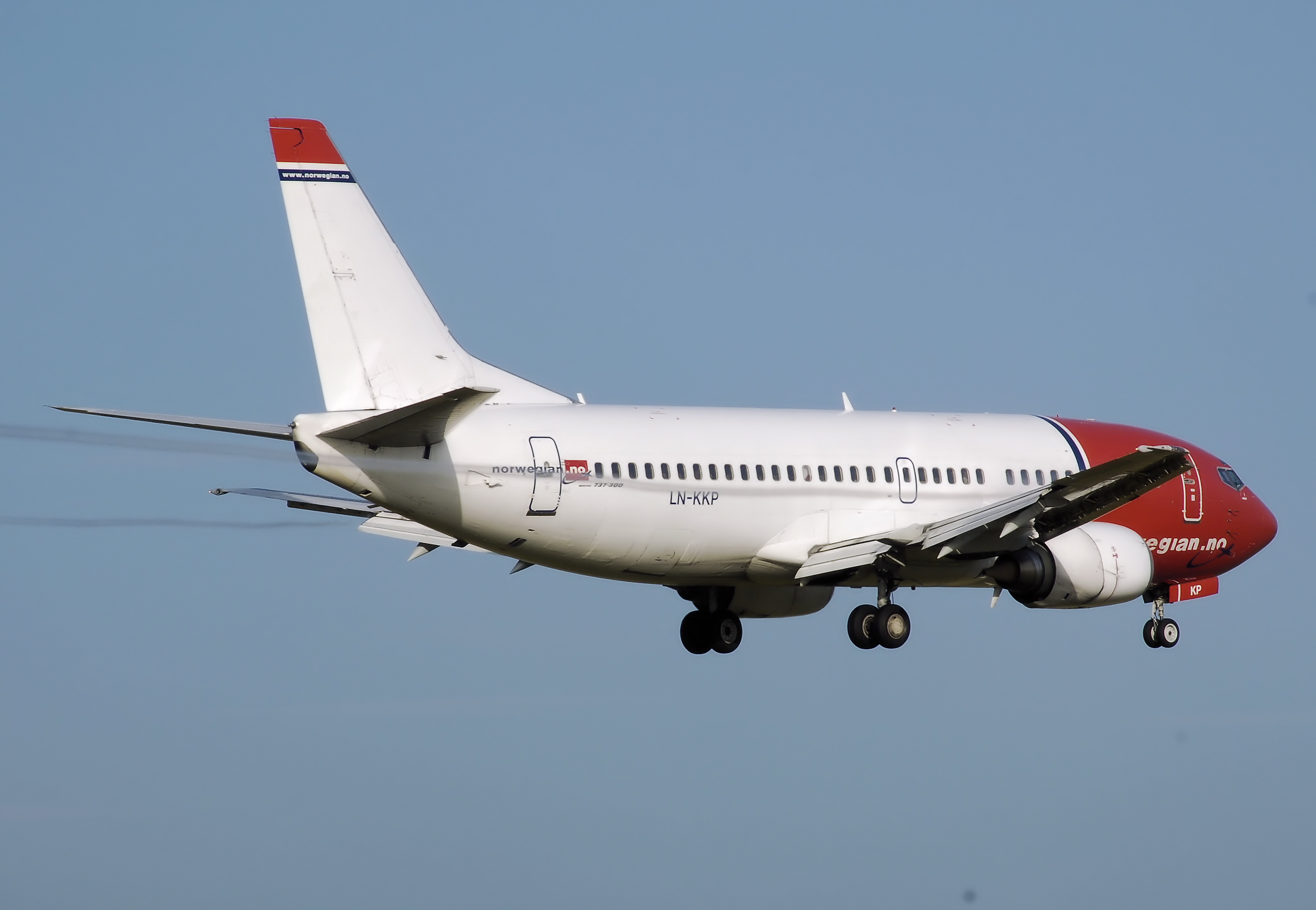 Norwegian Air Shuttle Boeing 737-300 (LN-KKP) lands at Birmingham International Airport, England. Notice the condensation trails off the wing trailing edge.